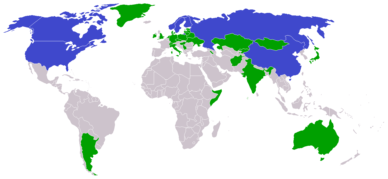 Participation in the Women's Bandy World Championship in 2016. Blue: Participating countries. Green: members of the Federation of International Bandy not participating in the Women's World Championship this year.